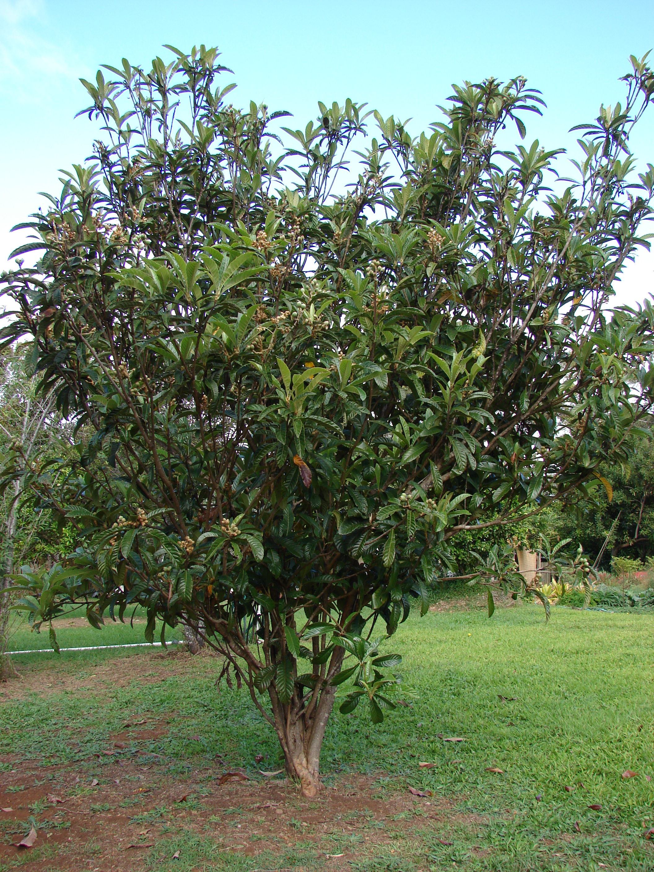 Eriobotrya japonica (habit). Location: Maui, Olinda